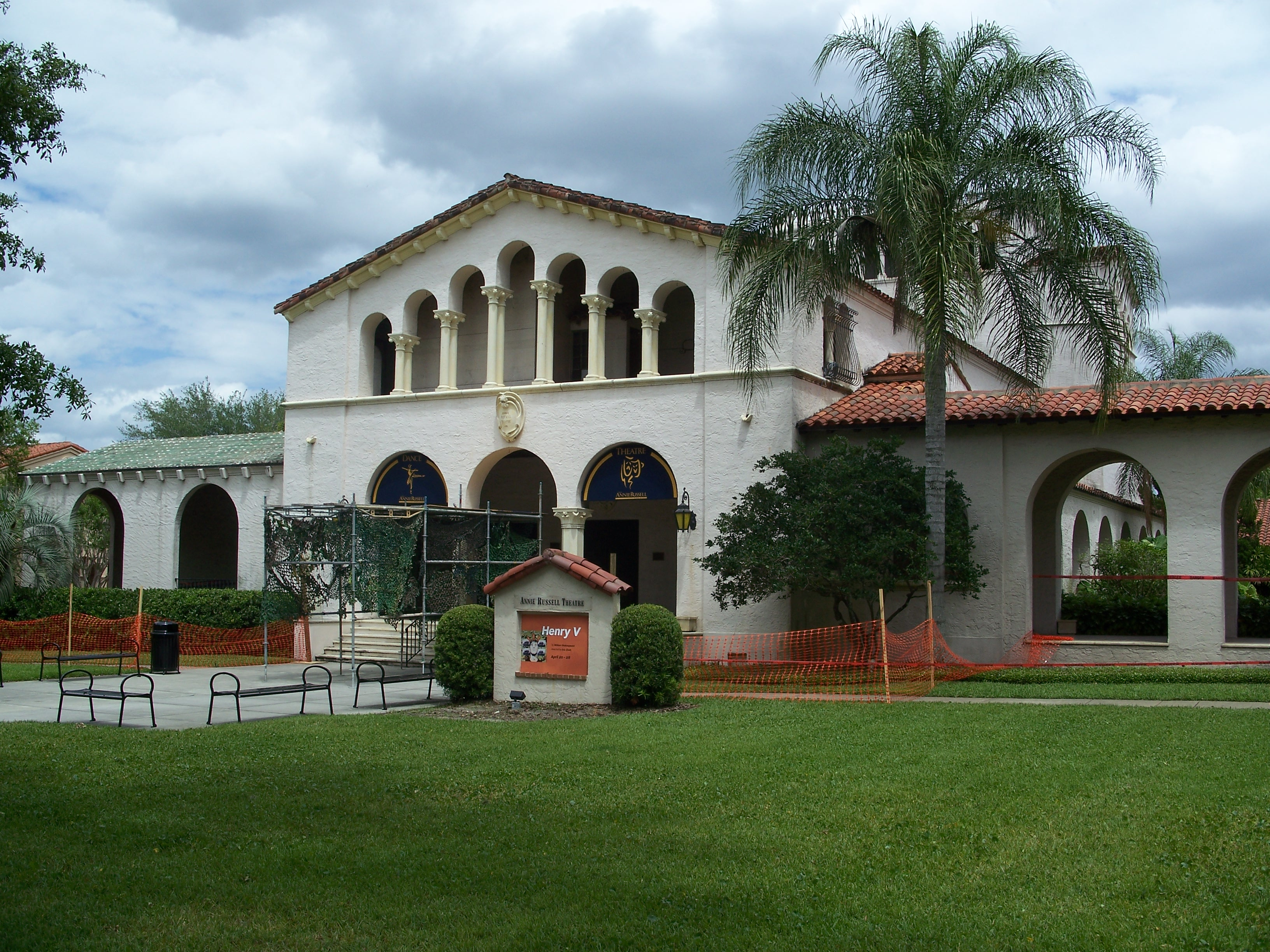 Annie Russell Theatre, on the Rollins College campus in Winter Park, Florida